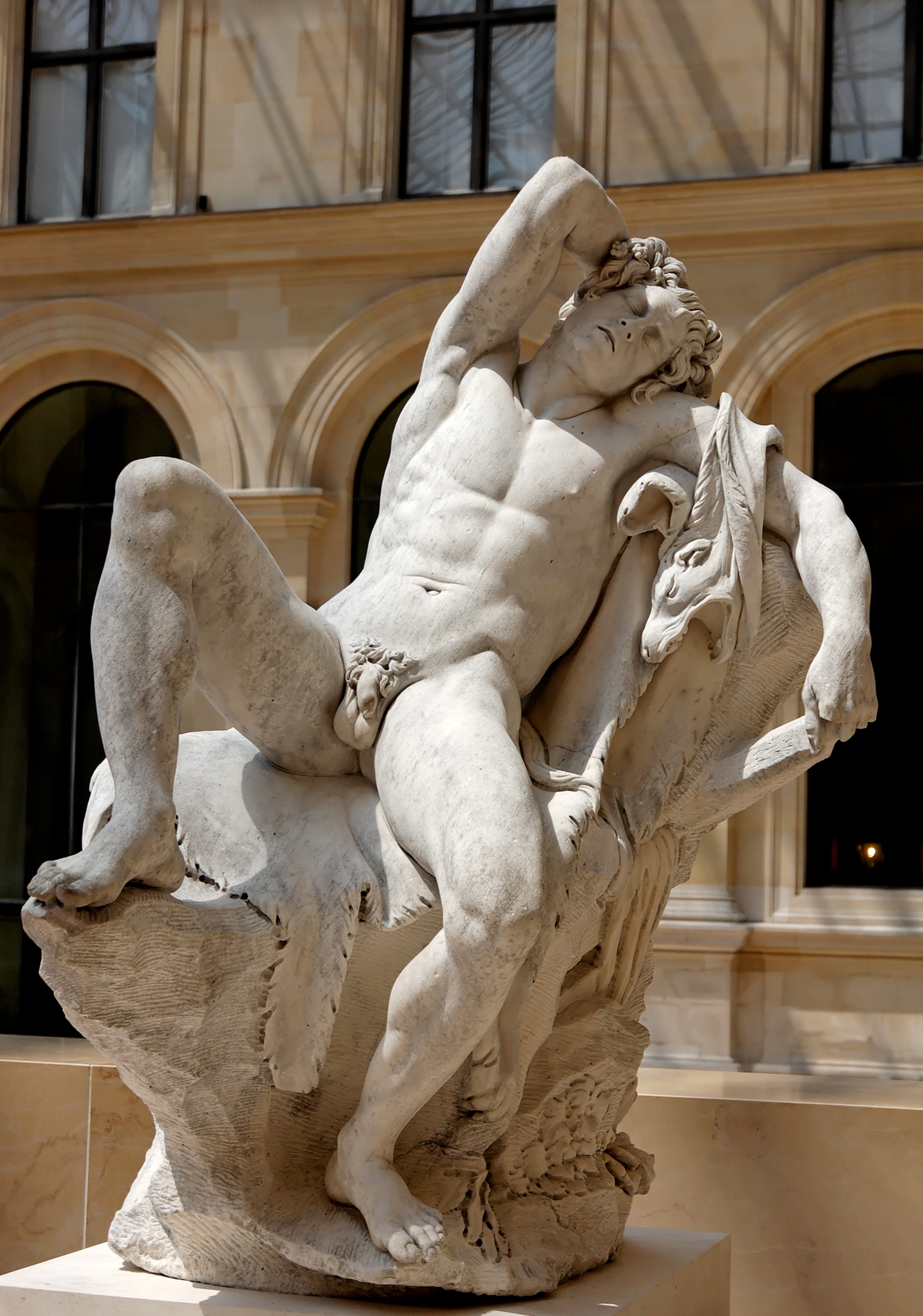 Sleeping Satyr, copy made in Rome of the celebrated antique Barberini Faun, now in the Glyptothek of Munich. The statue was exhibited in public parks (Parc Monceau, Parc de Saint-Cloud, Luxembourg Gardens), thus the poor condition of the marble.